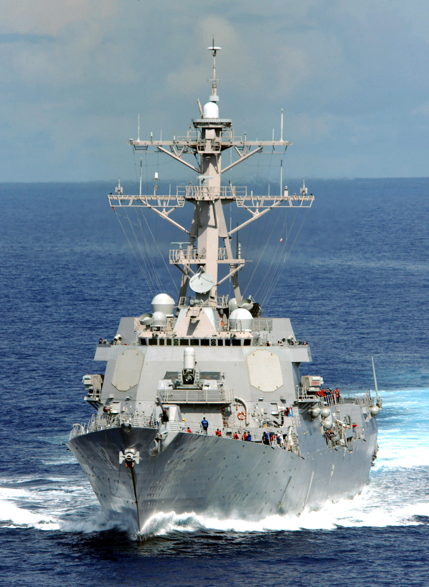 Philippine Sea (Jun. 15, 2003) -- Aerial view of the guided missile destroyer USS Lassen (DDG 82) part of USS Carl Vinson (CVN 70) Carrier Strike Group. The Carl Vinson Carrier Strike Group will remain in the Western Pacific while the forward-deployed USS Kitty Hawk (CV 63) completes scheduled dry dock maintenance. U.S. Navy photo by Photographer's Mate Airman Chris Valdez. (RELEASED)